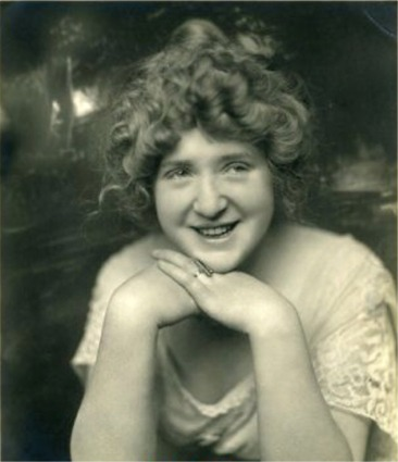 Bess Meredyth, ca 1915, personal collection